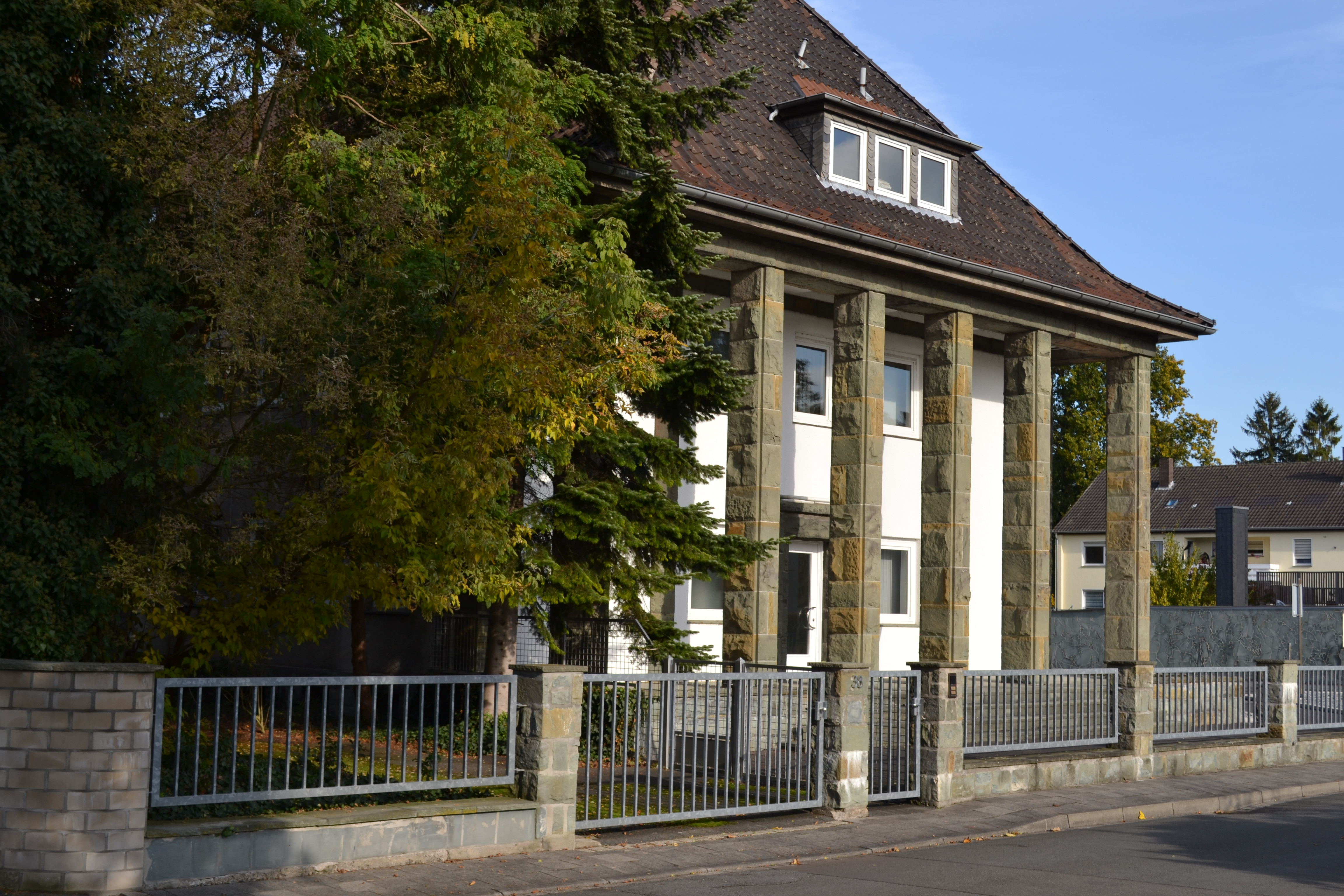 Buildings of former "Luftwaffenkaserne" Lippstadt-Lipperbruch